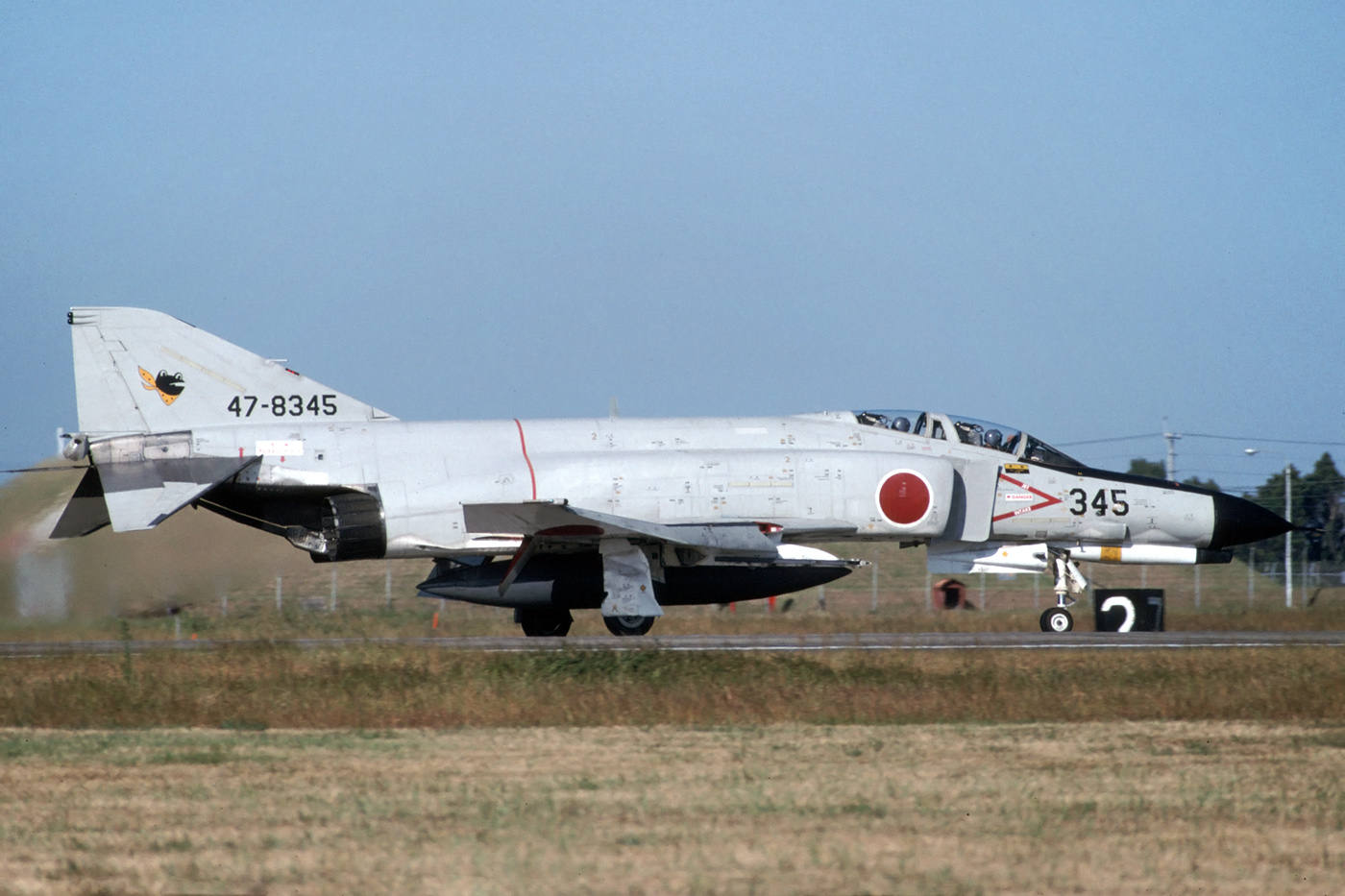 Nyutabaru, November 1994. F-4EJ (Kai) of 301 Hikotai. 21 years later the squadron still has Phantoms. This F-4 however is preserved at Chitose airbase.